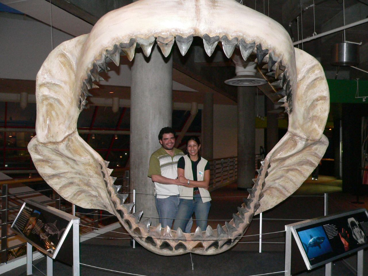 Shark teeth - Baltimore Aquarium.